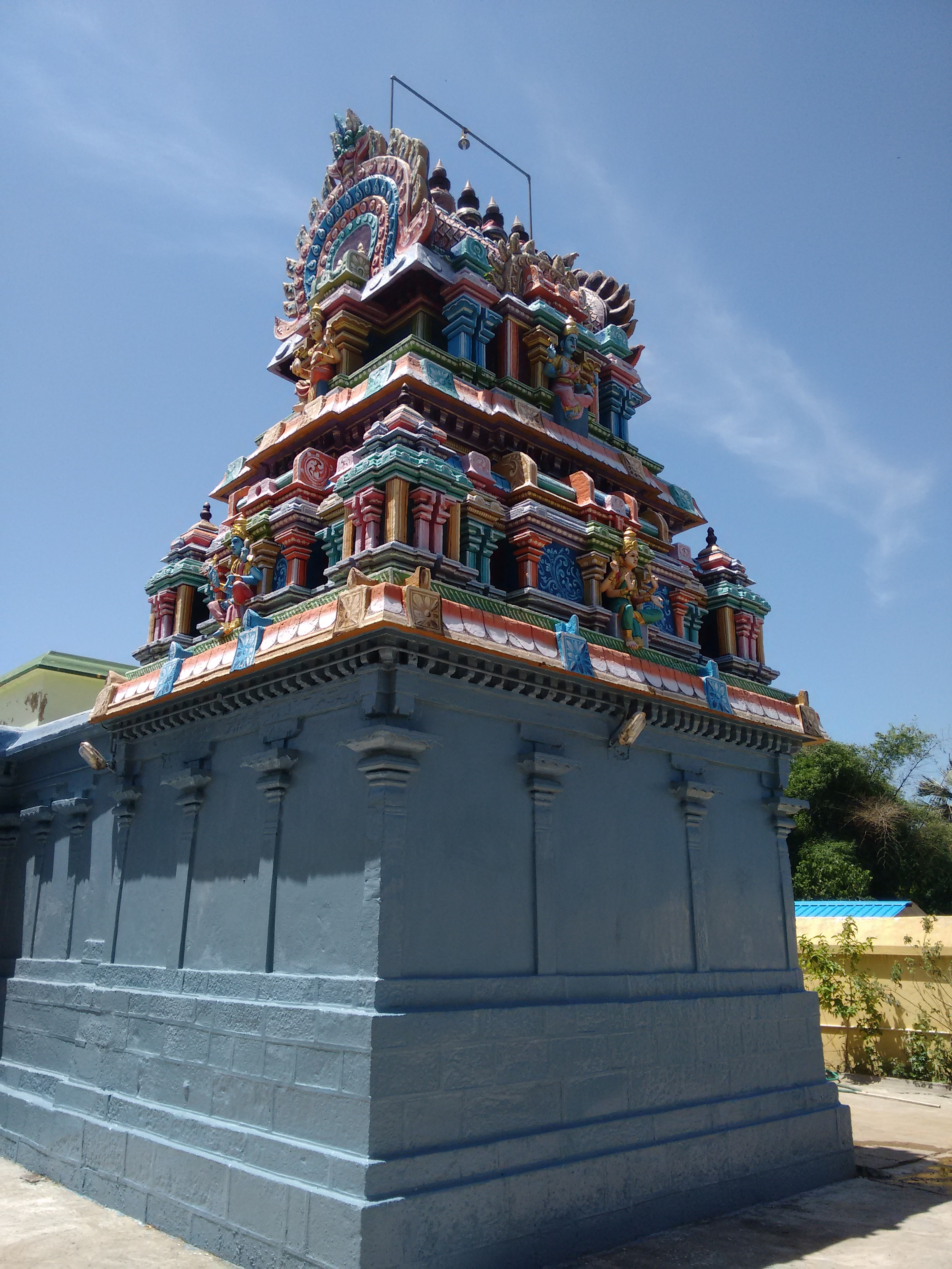 Darasuram Sakkarayiamman temple தாராசுரம் சக்கராயியம்மன் கோயில்